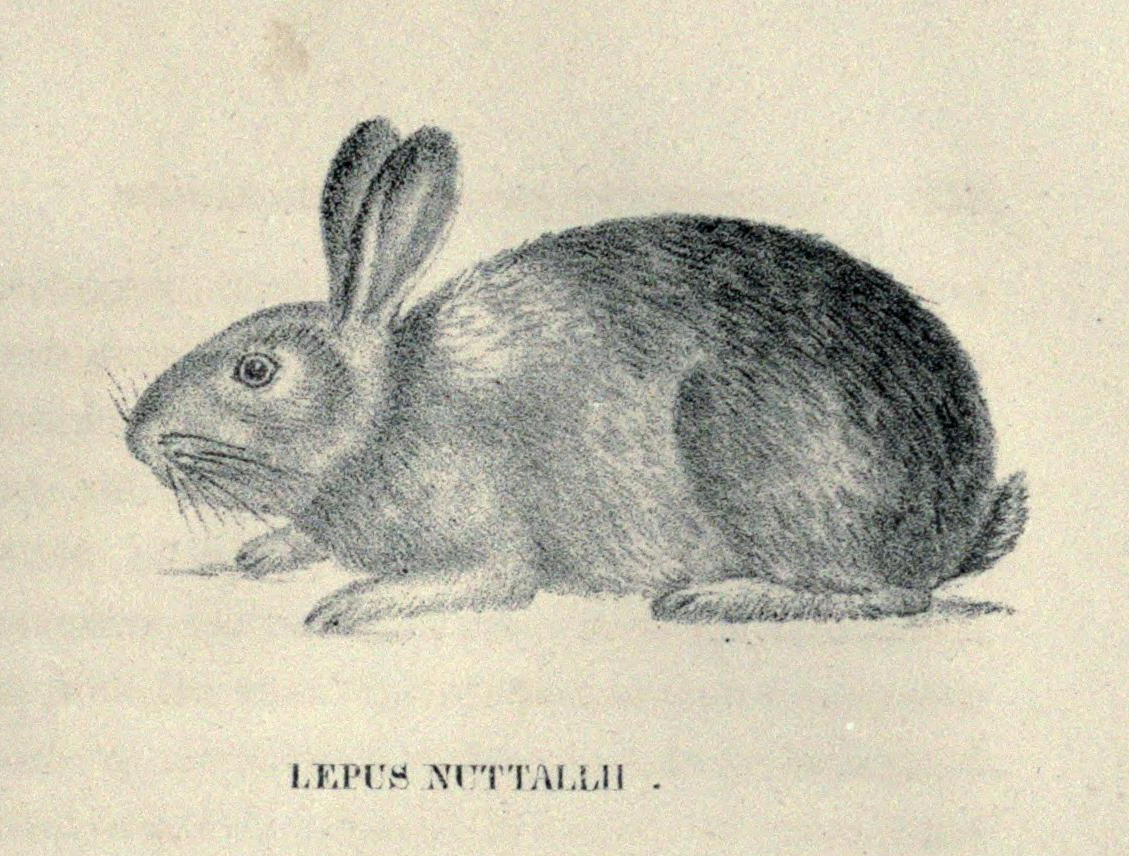 Drawing of Lepus nuttallii (now Sylvilagus nuttallii) in it'S original scientific description